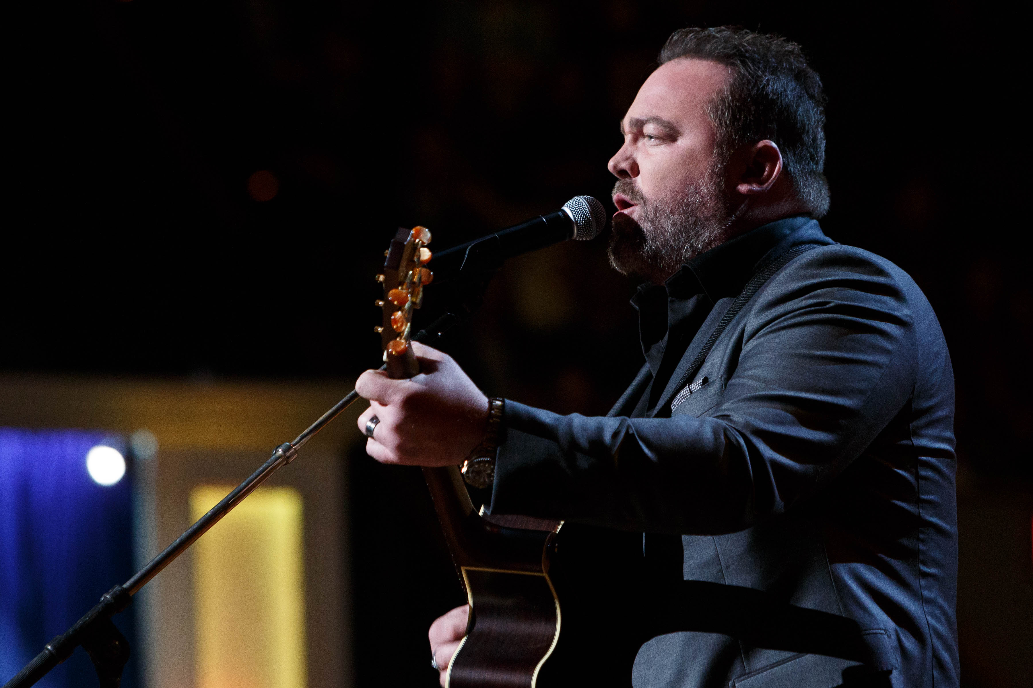 Lee Brice performs "More than a Memory" at the 2020 Library of Congress Gershwin Prize for Popular Song concert honoring Garth Brooks at DAR Constitution Hall in Washington, D.C., March 4, 2020. Photo by Shawn Miller/Library of Congress. Note: Privacy and publicity rights for individuals depicted may apply.